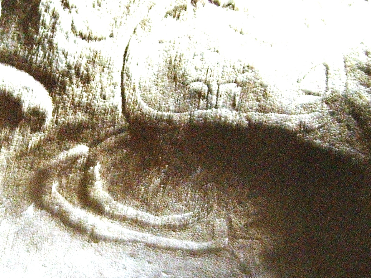 Sardinia (Italy) Montessu - scultura murale By Shardan --Shardan 16:35, 14 September 2007 (UTC)